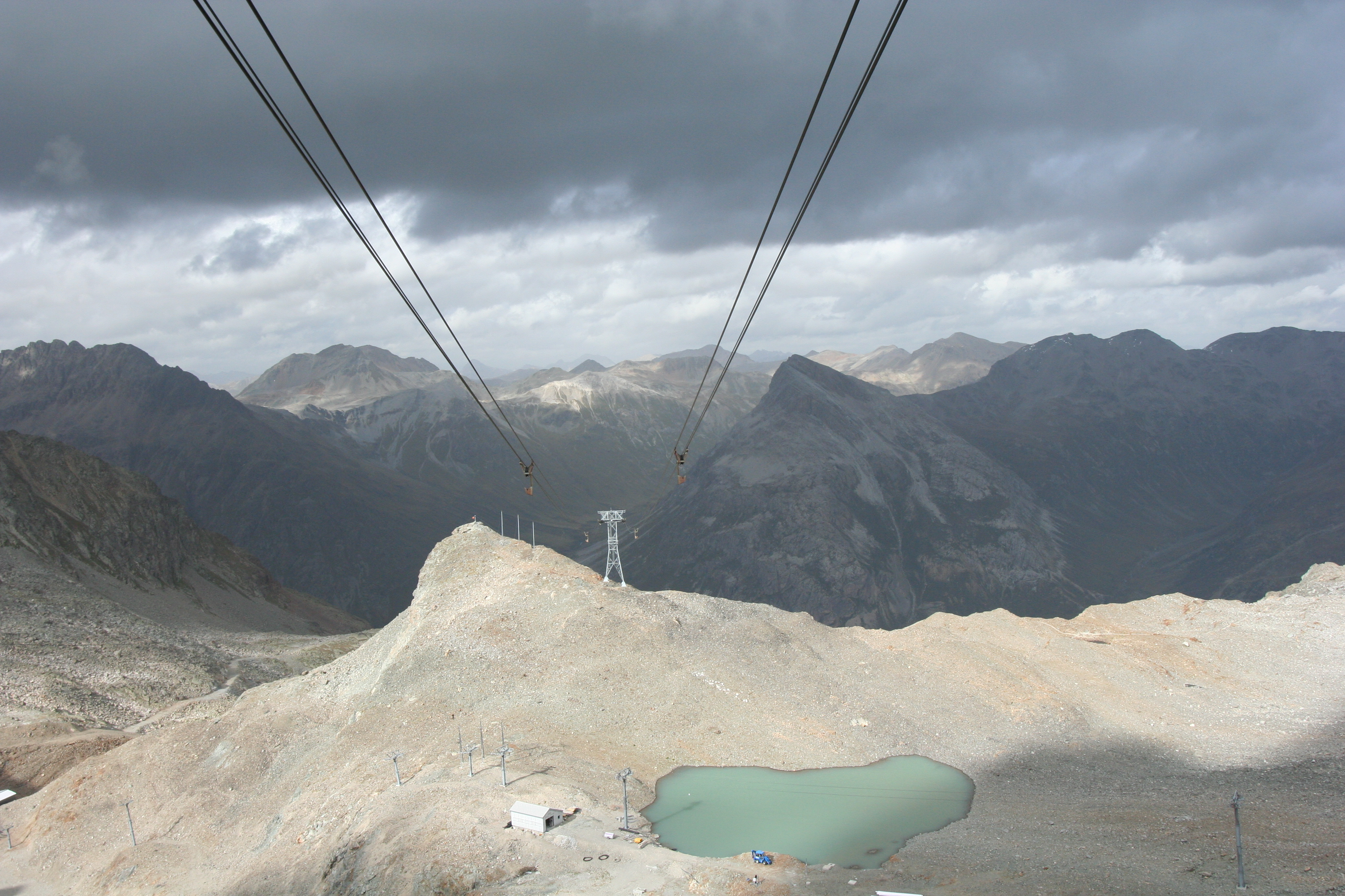 Gondola lift Diavollezza, Switzerland.